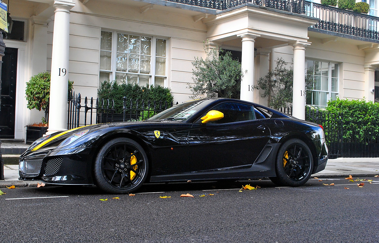 Ferrari 599 GTO pictured in London